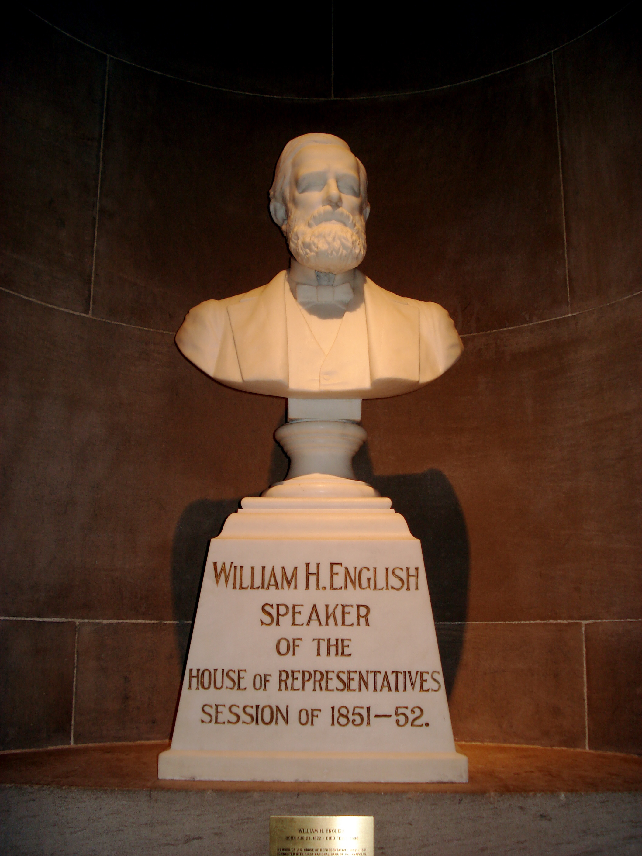 Bust of William Hayden English — in the Indiana Statehouse Public Art Collection.